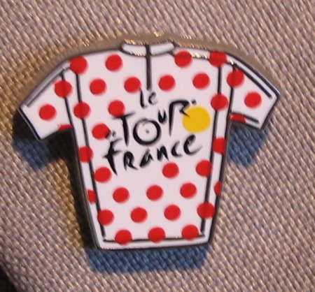 Polka dot jersey (Tour de France) - gadget from the race. Author:Pitert